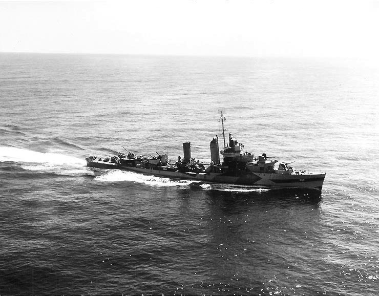 The U.S. Navy destroyer USS Cummings (DD-365) underway at sea on 3 September 1944, the day she participated in an attack on Wake Island. Her camouflage is Measure 31, Design 23D.